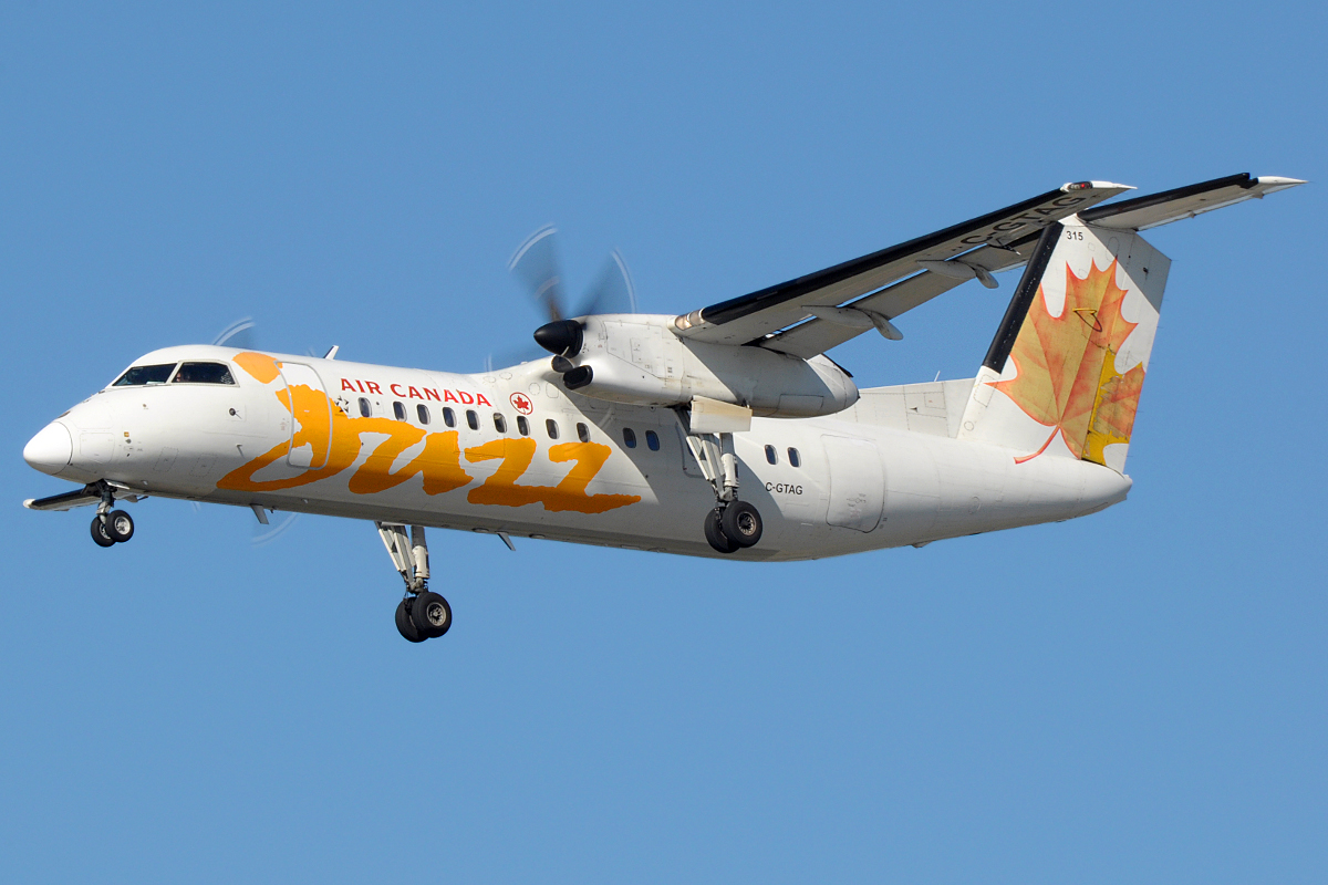 Air Canada Jazz Dash 8-300 landing in Vancouver